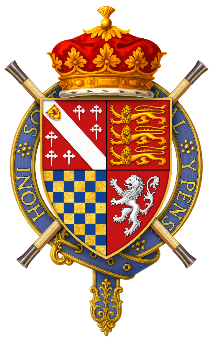 Coat of arms of Sir Thomas Howard, 2nd Duke of Norfolk, KG. Blazon: Quarterly: 1, Gules a bend between six cross-crosslets fitchy argent (for HOWARD). For augmentation to be charged on the bend, the Royal Shield of Scotland, having a demi-lion only, which is pierced through the mouth with an arrow (an honor granted to the 2nd Duke of Norfolk); 2, England with a label of three points argent; 3, Chequey or and azure; 4, Gules a lion rampant argent.